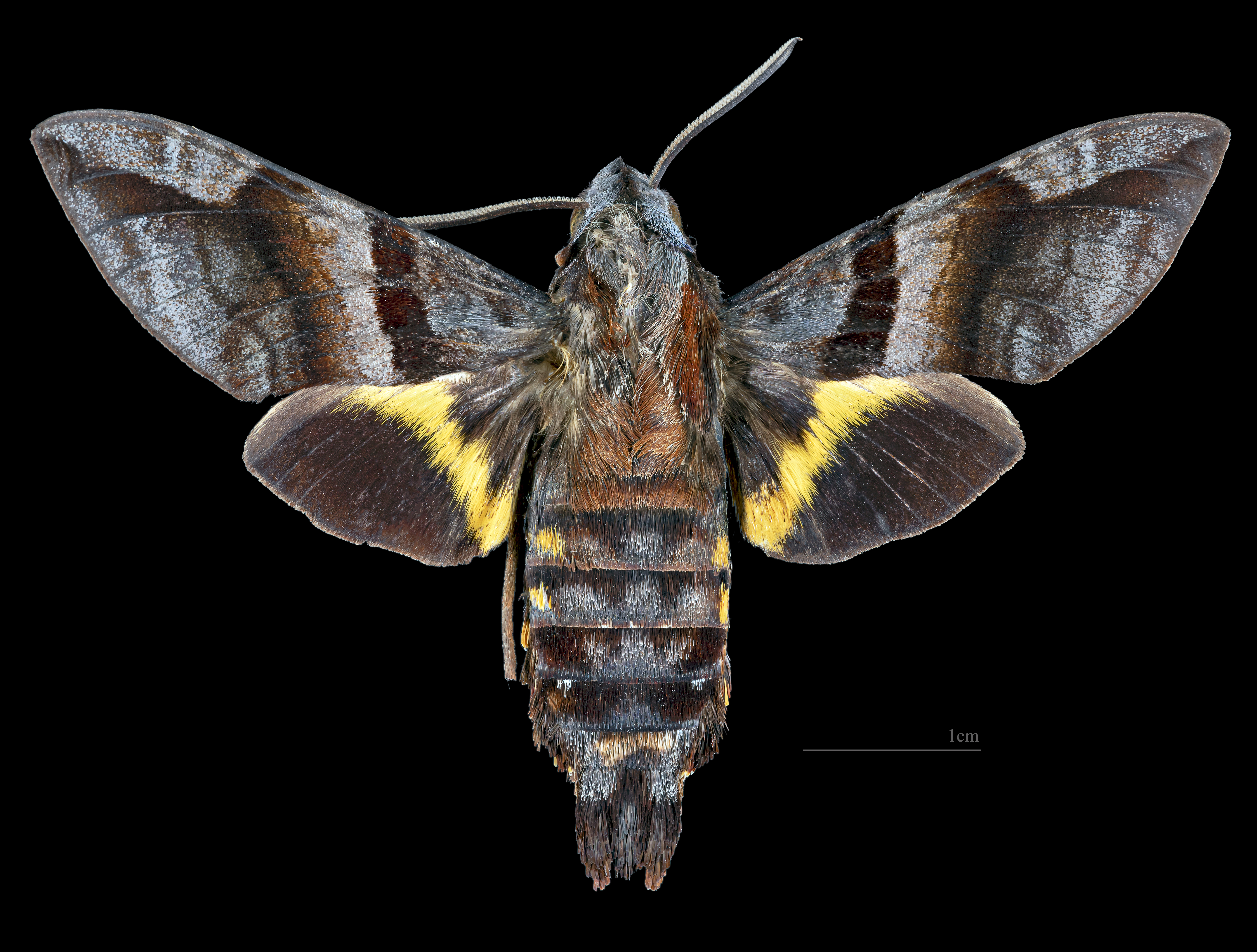 Macroglossum augarra - Dorsal side Collection of the Mathematician Laurent Schwartz